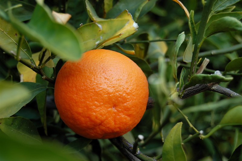 I took this photo of a tangerine from the tree in my back yard. f 5.6, 1/30 shutter speed, 18-55mm lens, Nikon D40.